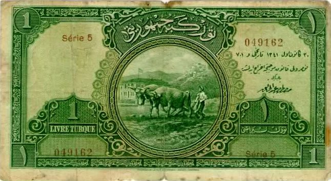 E1 1 TL reverse image